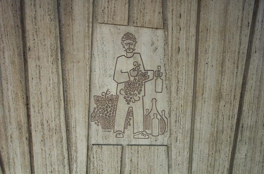 A carving in travertine, by Jean-Charles Charuest, in De Castelnau metro station, Montreal.